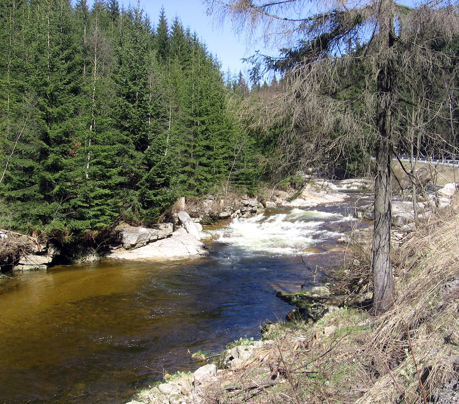 Jizera River between Harrachov and Kořenov (Czech Republic)